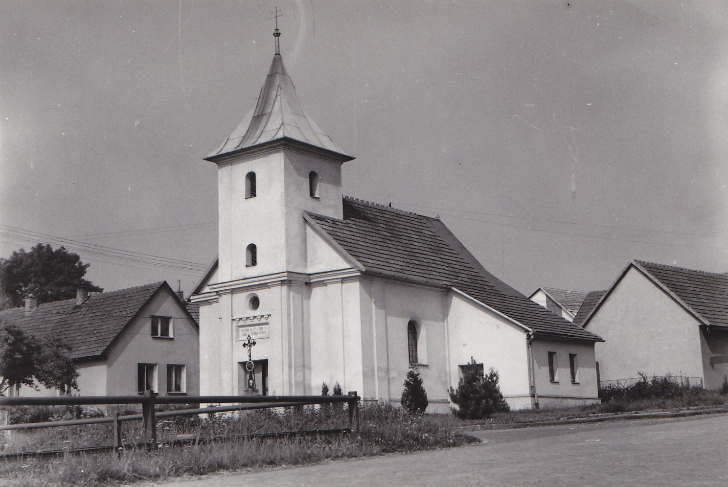 The Chapel of Saints Cyril and Methodius in Dobrá Voda, Vysočina